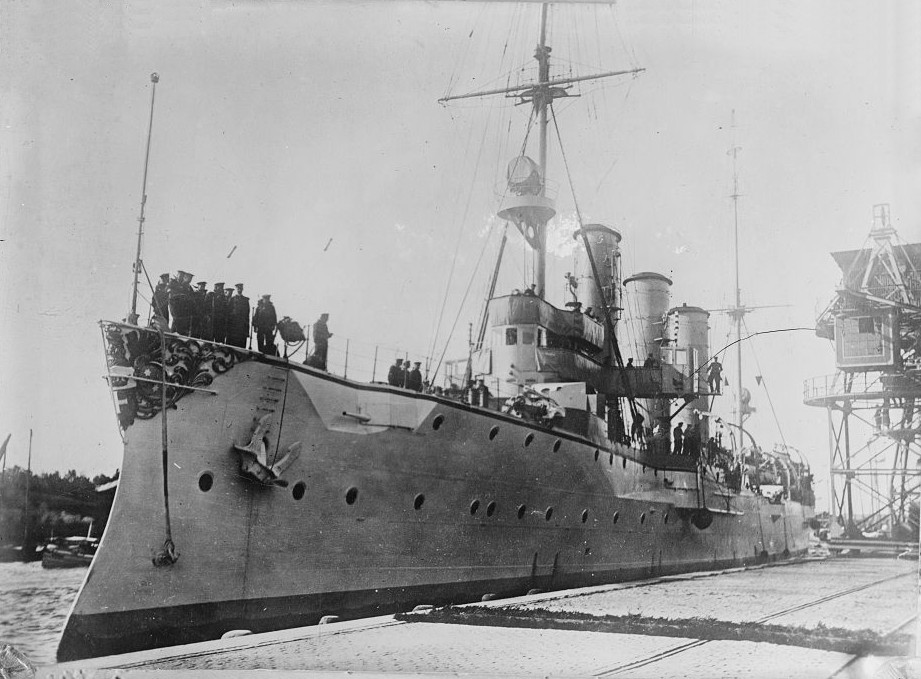 The German Imperial Navy Königsberg-class cruiser SMS Nürnberg. She was commissioned in 1908 and sunk at the Battle of the Falkland Islands on 8 December 1914. Despite the title on the original image at the LoC, this is not the "SMS Nürnberg". This is an image of the "SMS Königsberg". Note the coat of arms at the bows - the crest of the city of Königsberg, as here